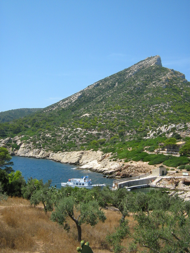 Spain, baleares, mallorca, isla sa dragonera: view of a glass bottom boat in the nature harbour „Cala Lladó“, a private house and the top of the island, „Far Vell“ ("Old Lighthouse").